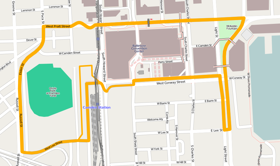 Proposed route of the Baltimore Grand Prix through Baltimore, Maryland.